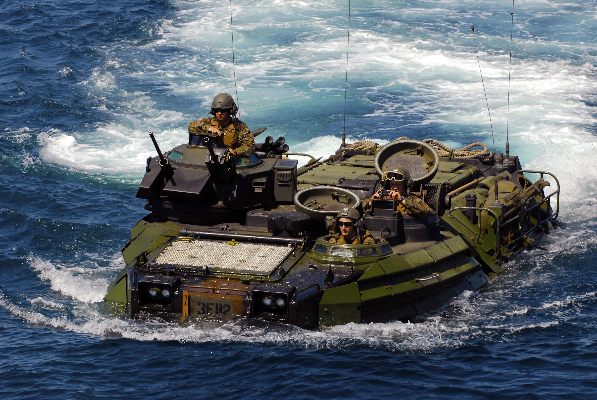 U.S. Marines from the 1st Battalion, 4th Marine Division return to the amphibious transport dock ship USS Dubuque (LPD 8) in an amphibious assault vehicle after training with Indonesian marines during Marine Exercise 2010 on June 22, 2010. Marine Exercise is designed to provide training to the Indonesian military and build relationships that help maintain regional stability.